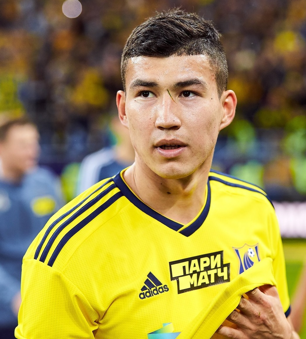 Baktiyar Zaynutdinov after the game of FC Rostov against FC Dynamo Moscow.